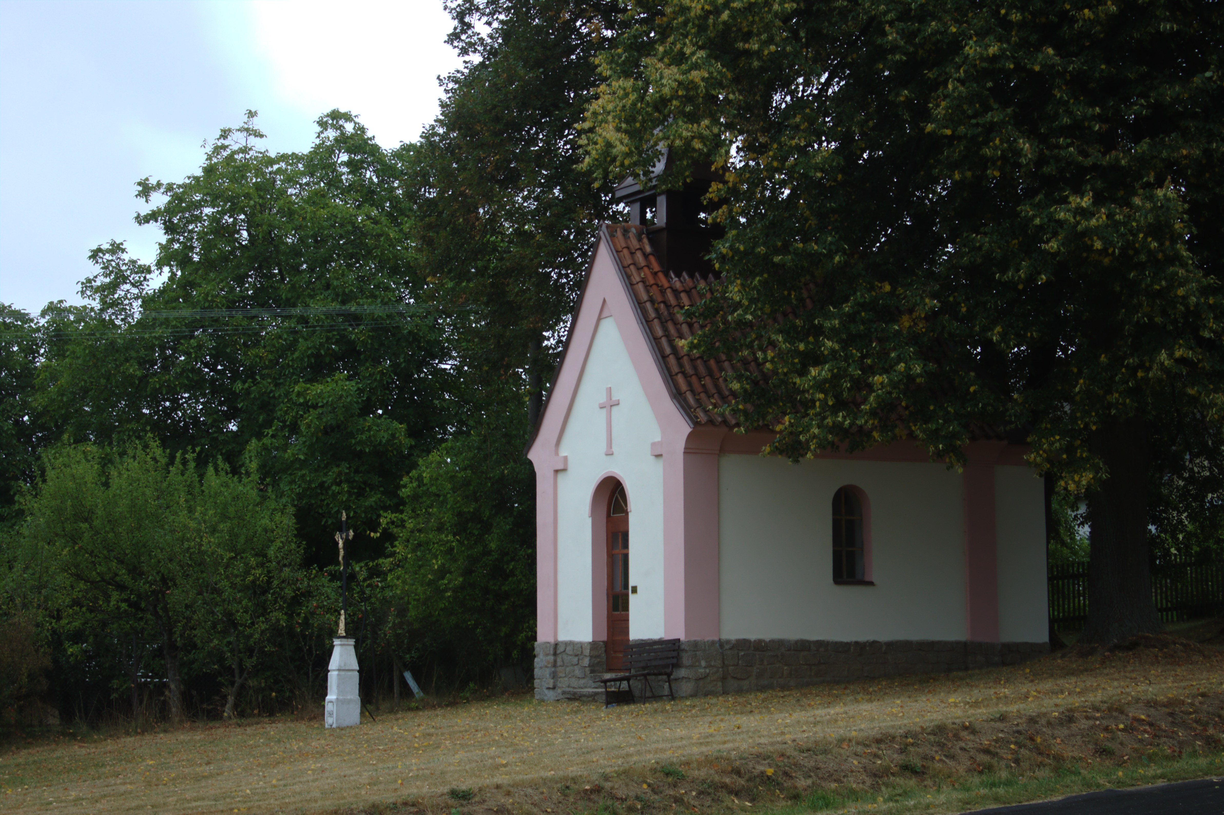 A chapel situated at a local common in the village of Palčice